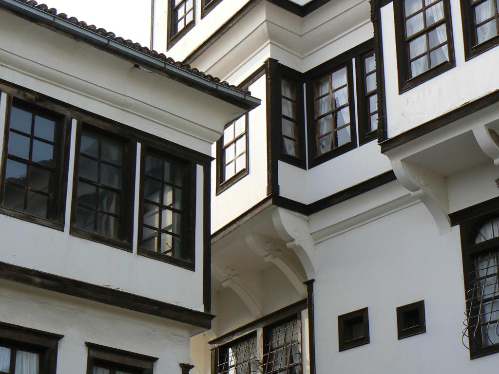 Example of a traditional Ohrid house. The house of the Robevci family - a museum at the same time.